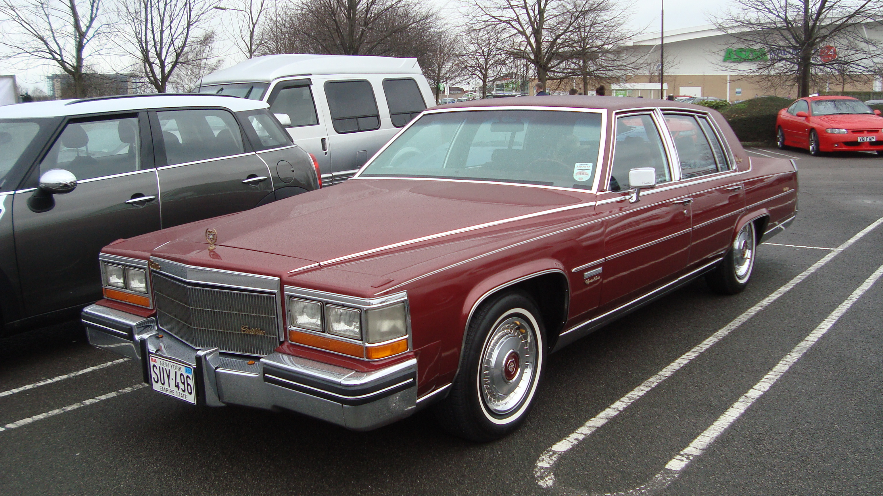 1983 Cadillac Fleetwood